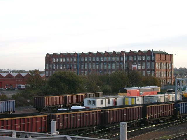 Rugby - Alstom. Part of the old GEC Mill Road Site (formerly AEI, BTH, Robinson Willans etc) which in the mid 20th Century employed approximately 10,000 people. Probably a few hundred now.